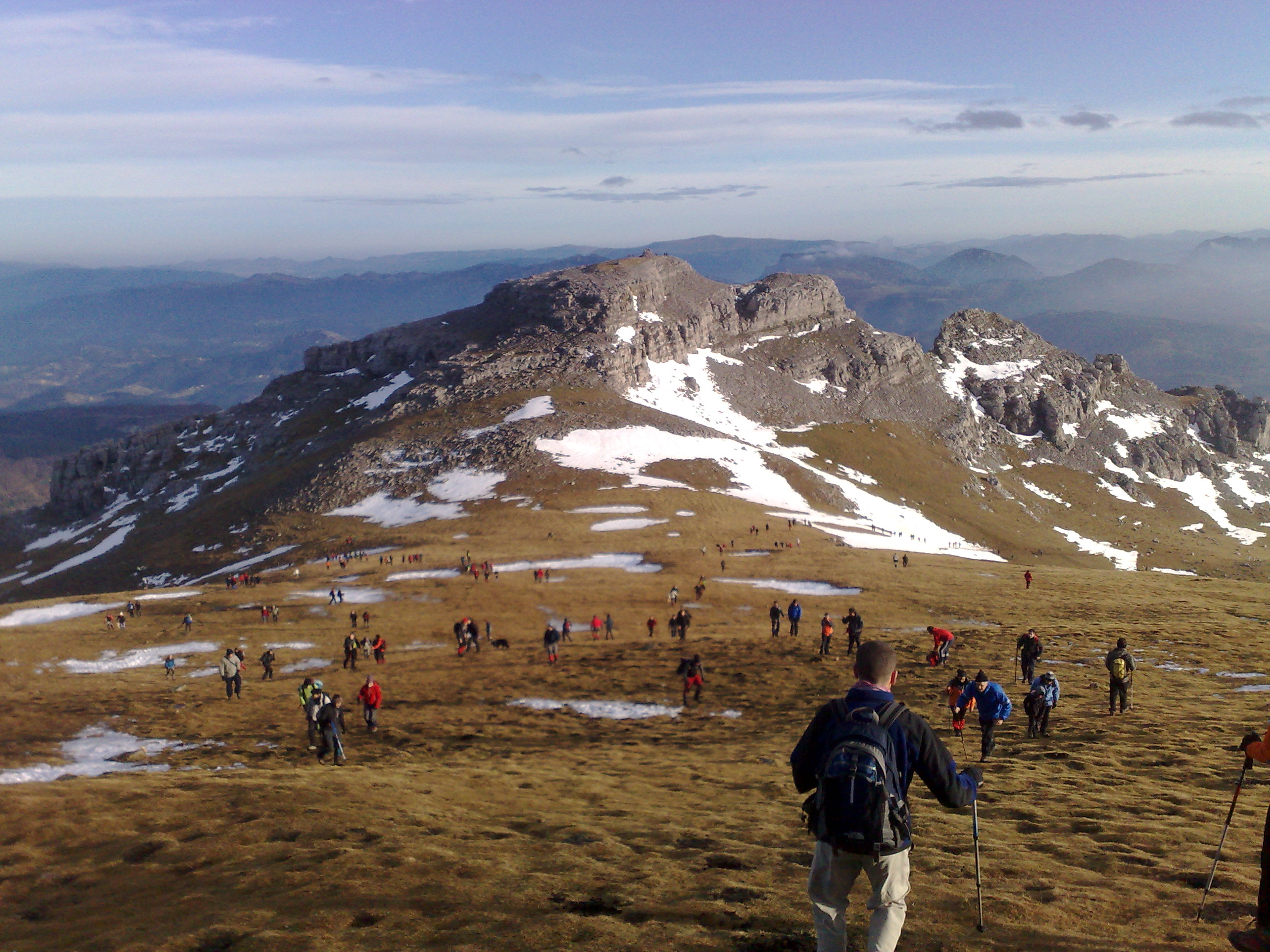 Mt. Aldamin (1.376 m) seen from Gorbeia cross, Biscaye, Basque Country.